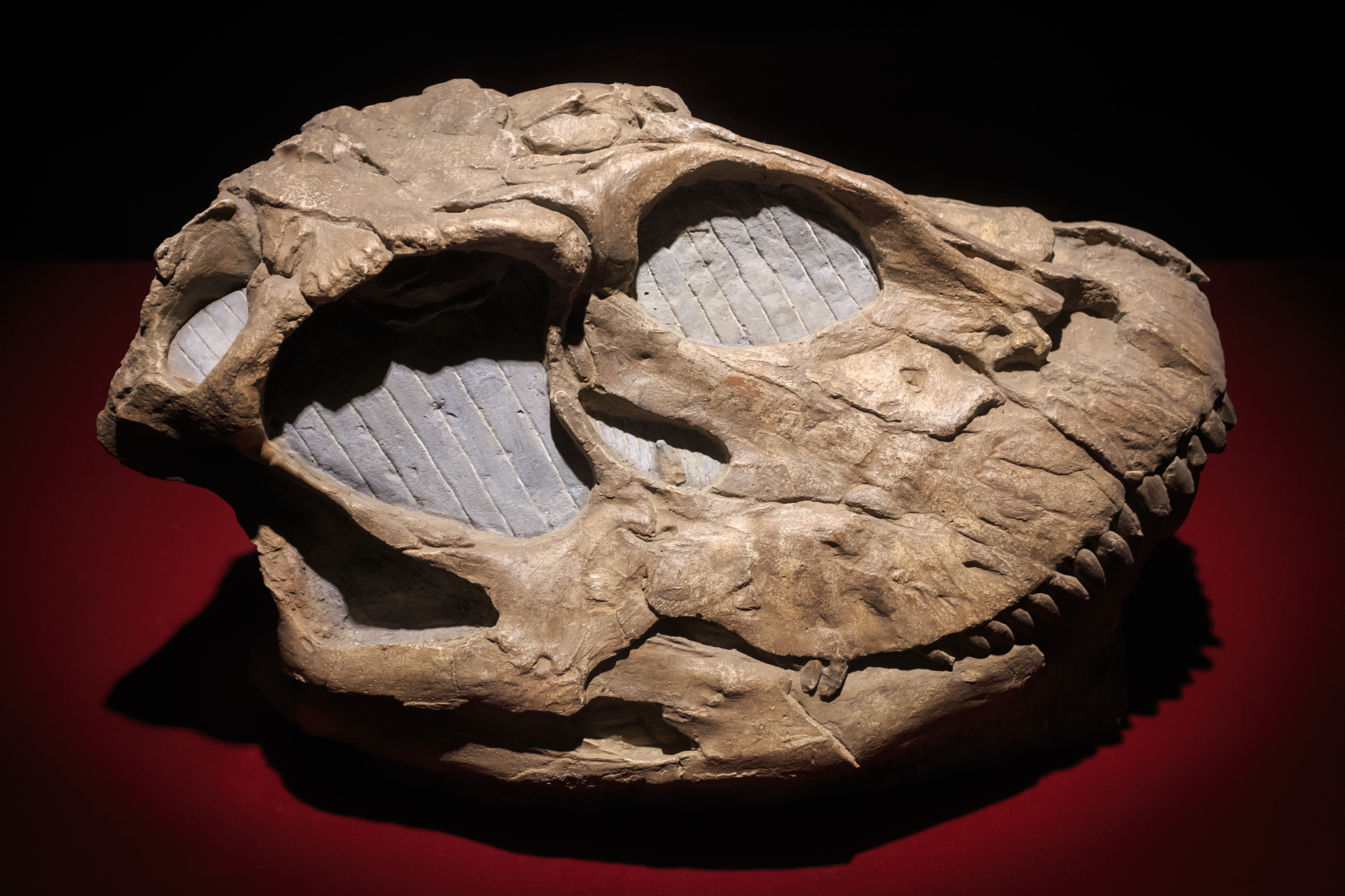 Skull of Shunosaurus lii. Symtemtic position: Cetiosauridae, Sauropodomorpha, Saurischia. Locality: Dashanpu, Zigong, Sichuan, China. Age: Middle Jurassic (about 160 million years ago). As the most typical representative of Dashanpu Dinosaur Fauna, Shunosaurus lii is a primitive sauropod dinosaur. Its skull is moderate in height and length with small and slender spatulate teeth. This is the best-preserved skull of primitive sauropod dinosaur so far konwn in the world.